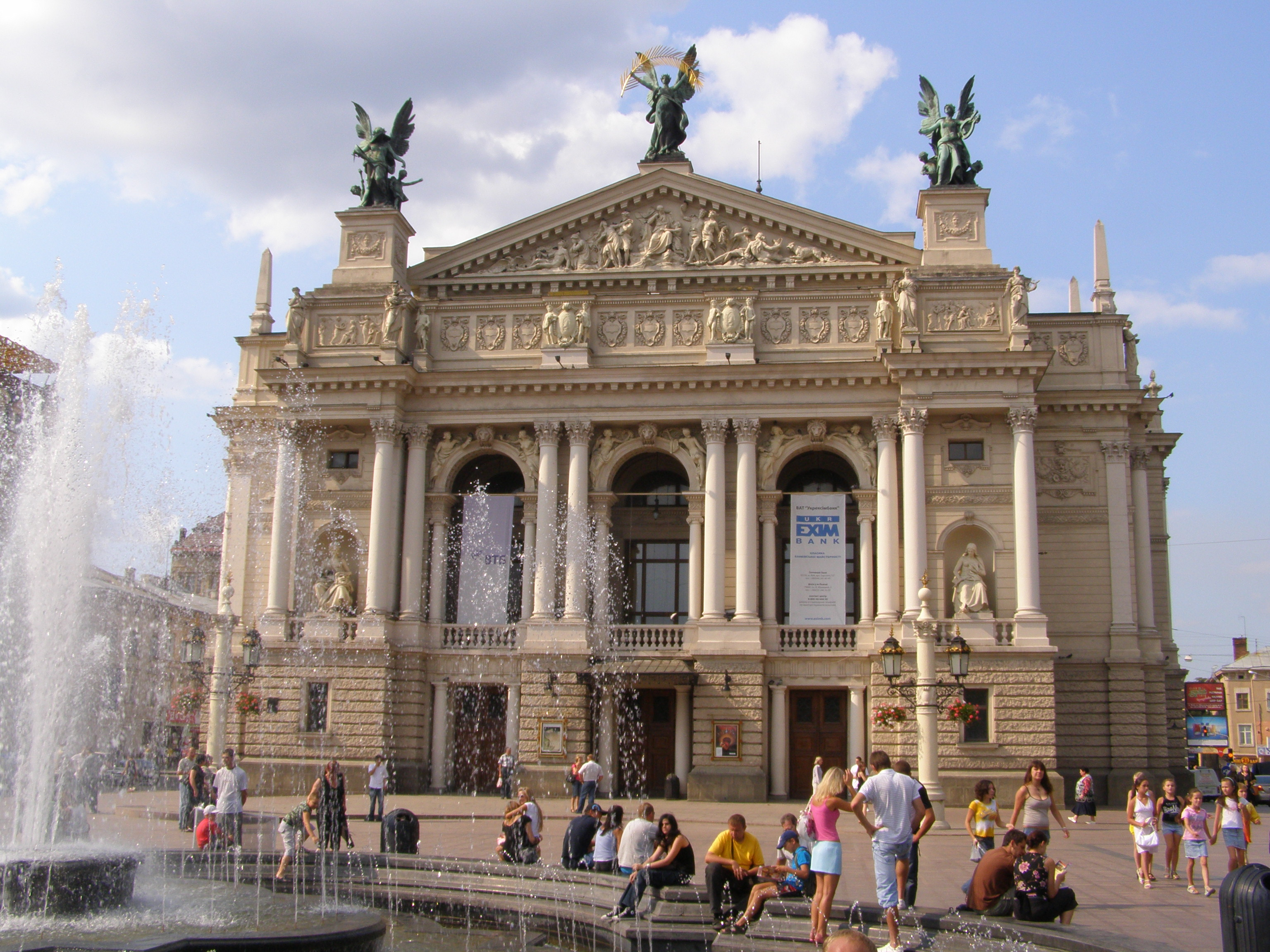 Lviv, Opera house